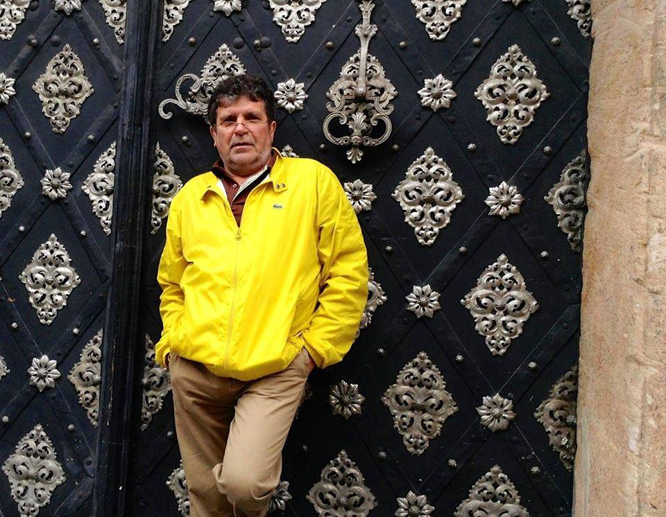 OLEG MAKARA at Nerudova street Prague 2014